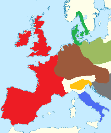 Europe during the middle bronze age Le grandi avventure dell'archeologia Volume 5 p. 1606 - Blue : Apennine culture , Yellow : Terramare culture , Brown : Tumulus culture , Red : Atlantic Bronze Age , Green : Nordic Bronze Age , Apple green : Cultures of Unetice tradition , Gray : Balkan cultures